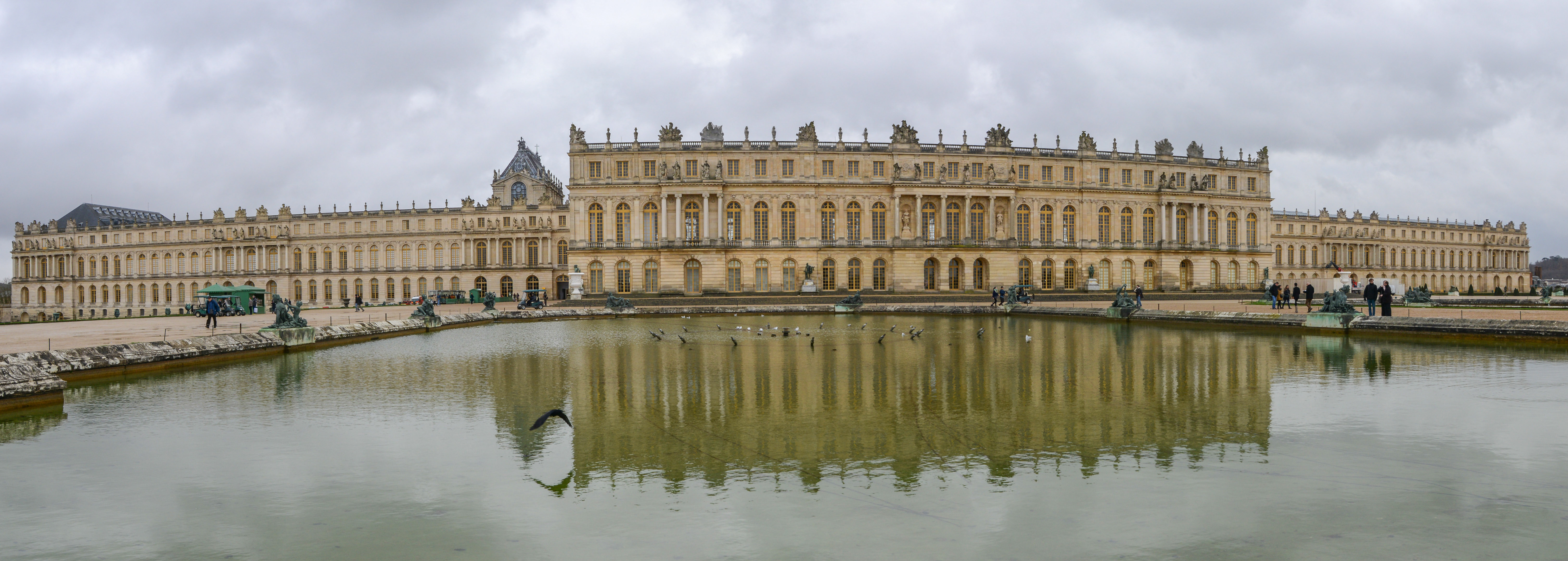 The Palace of Versailles, or simply Versailles, is a royal château in Versailles in the Île-de-France region of France. It is also known as the Château de Versailles. When the château was built, Versailles was a country village; today, however, it is a wealthy suburb of Paris, some 20 kilometres southwest of the French capital. The court of Versailles was the centre of political power in France from 1682, when Louis XIV moved from Paris, until the royal family was forced to return to the capital in October 1789 after the beginning of the French Revolution. Versailles is therefore famous not only as a building, but as a symbol of the system of absolute monarchy of the Ancien Régime. Tourist attraction and art exhibition site The Fifth Republic has enthusiastically promoted the museum as one of France's foremost tourist attractions. The Public Establishment of the Palace, Museum and National Estate of Versailles, a French établissement public à caractère administratif, and Château de Versailles Spectacles organized a Versailles exhibition of the modern art of Jeff Koons in 2008. Six of the works on display came from "the vast private collection of François Pinault, France's wealthiest art collector." In 2008, official Versailles figures stated that nearly five million people visit the château, and 8 to 10 million walk in the gardens, every year